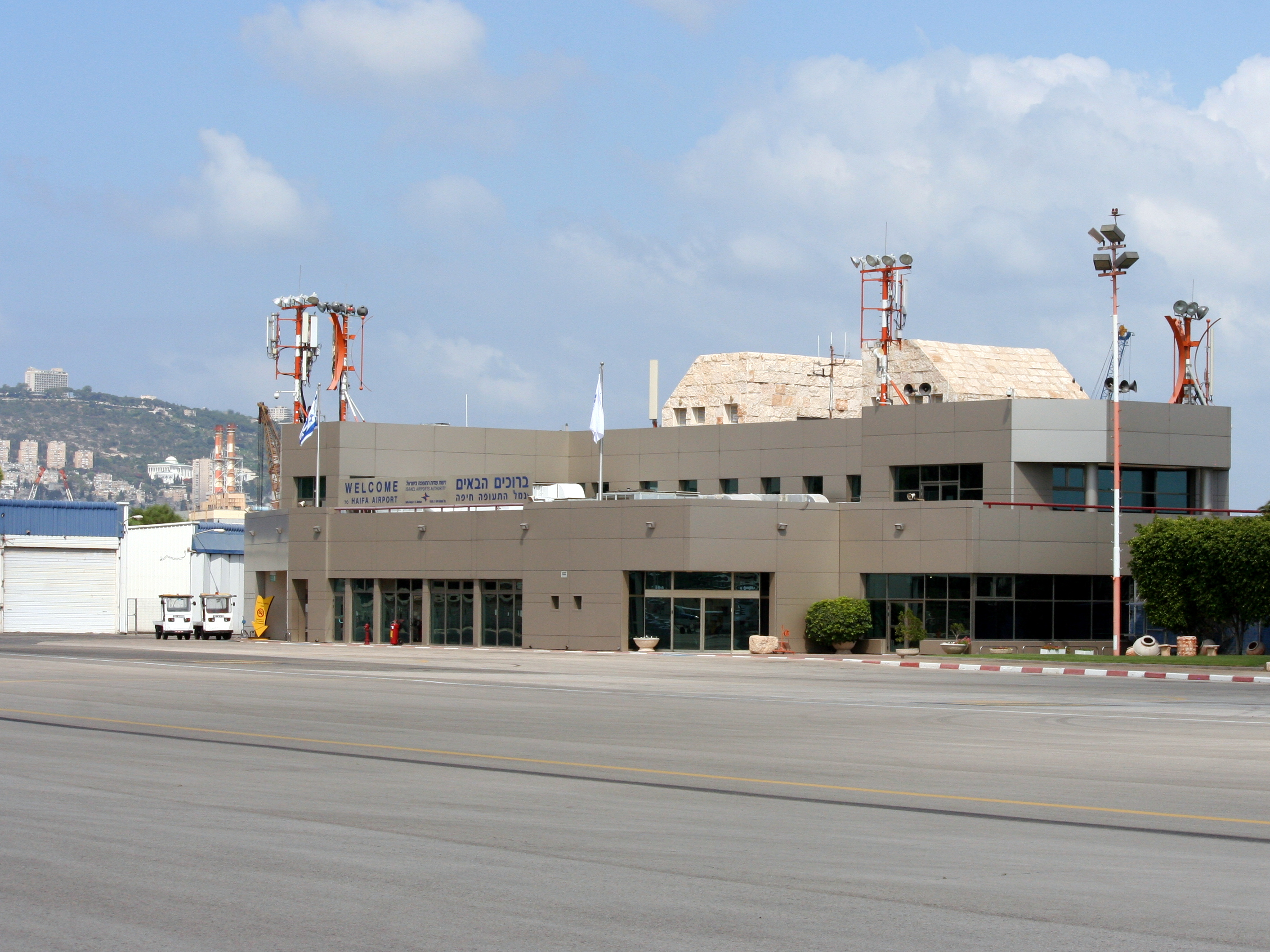 Haifa Airport terminal